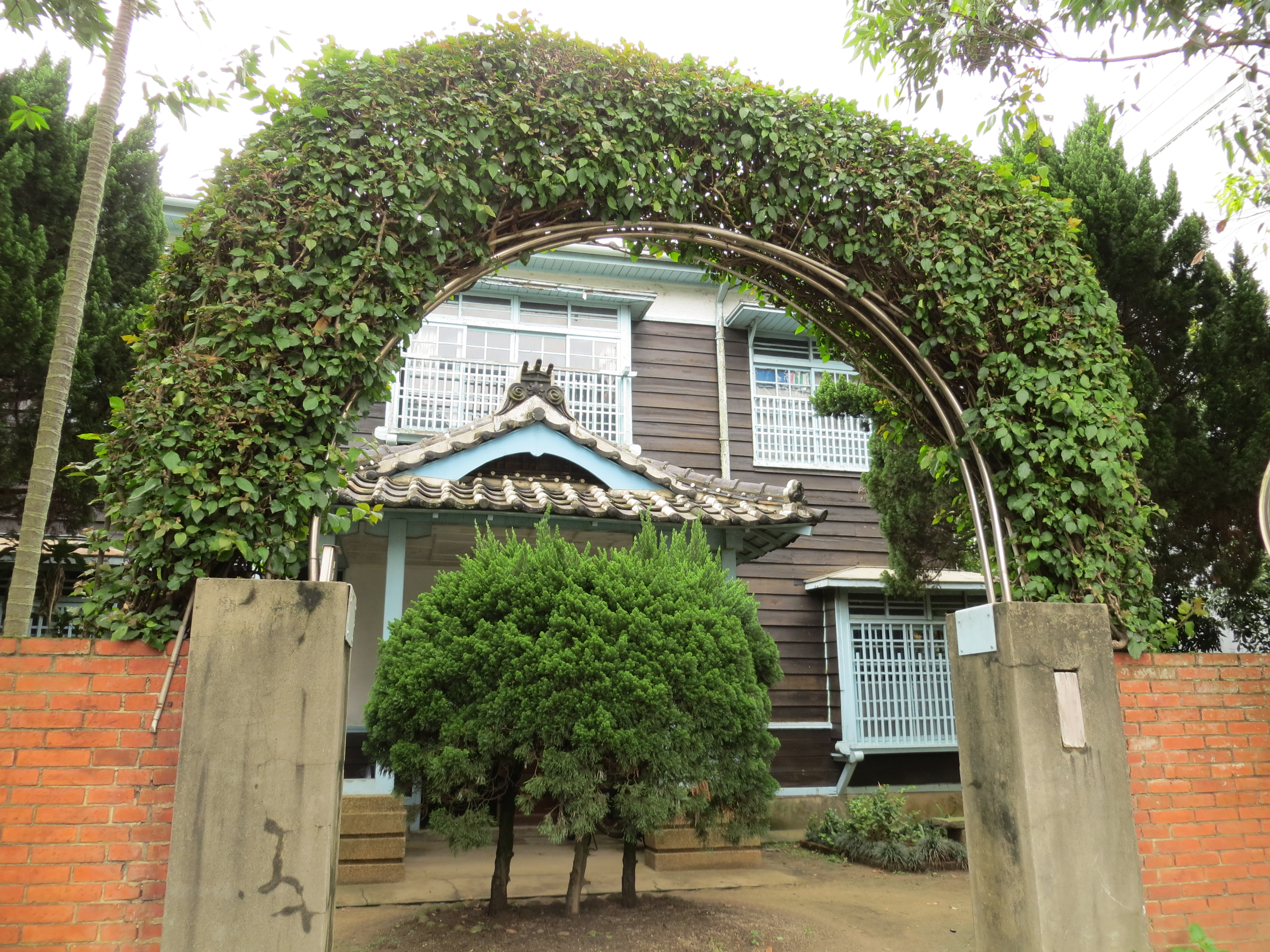 Zhongguang (Jhongguang) Clinic, Tongluo, Miaoli, Taiwan.